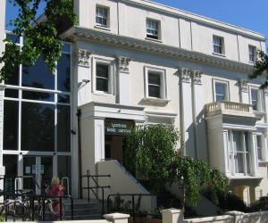 Outside The London Irish Centre, 50-52 Camden Square, London NW1 9XB